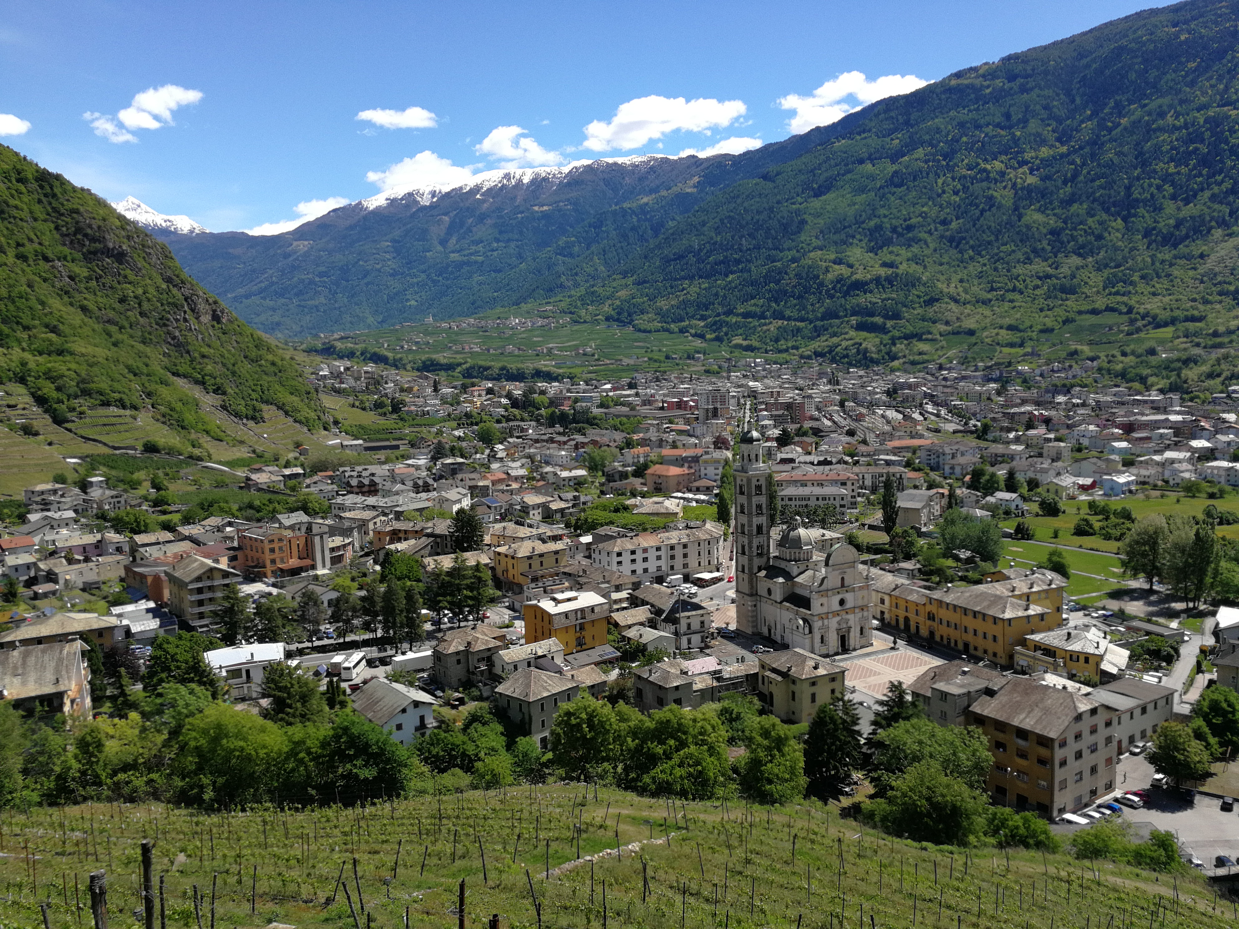 Tirano. In the middle Santuario Madonna di Tirano.